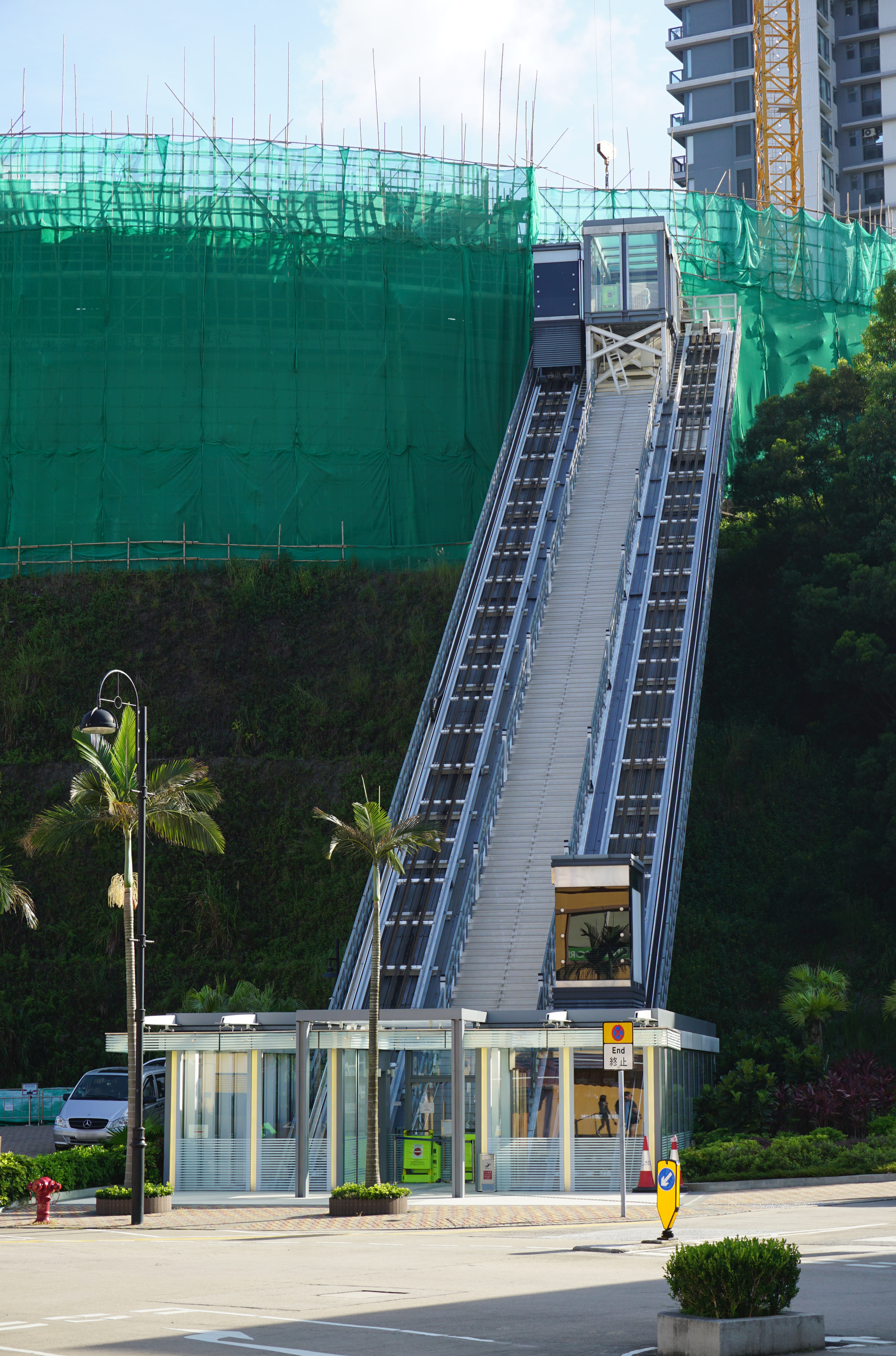 Discovery Bay in Lantau Island, Hong Kong.